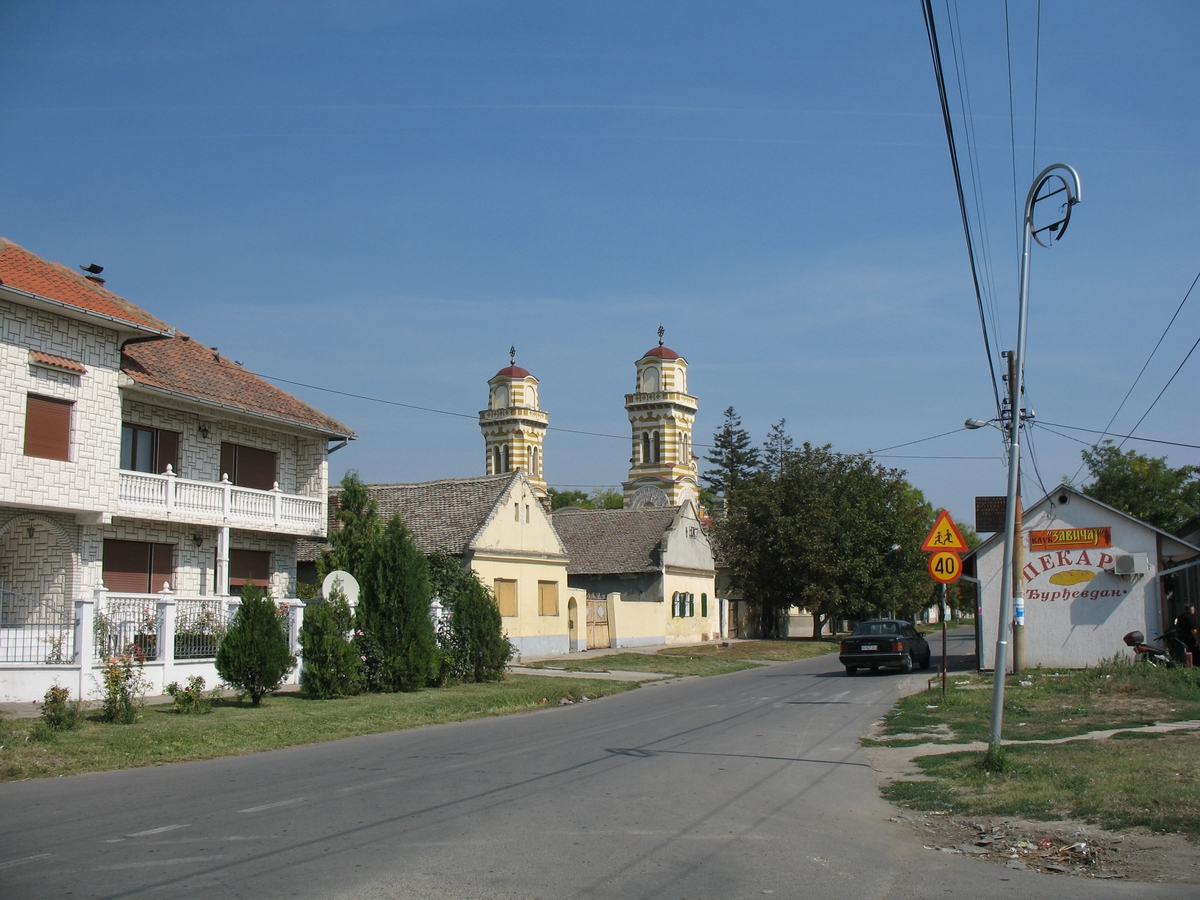 Ovča, near Belgrade, Serbia.